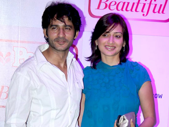 Hiten Tejwani and Gauri Pradhan Tejawani